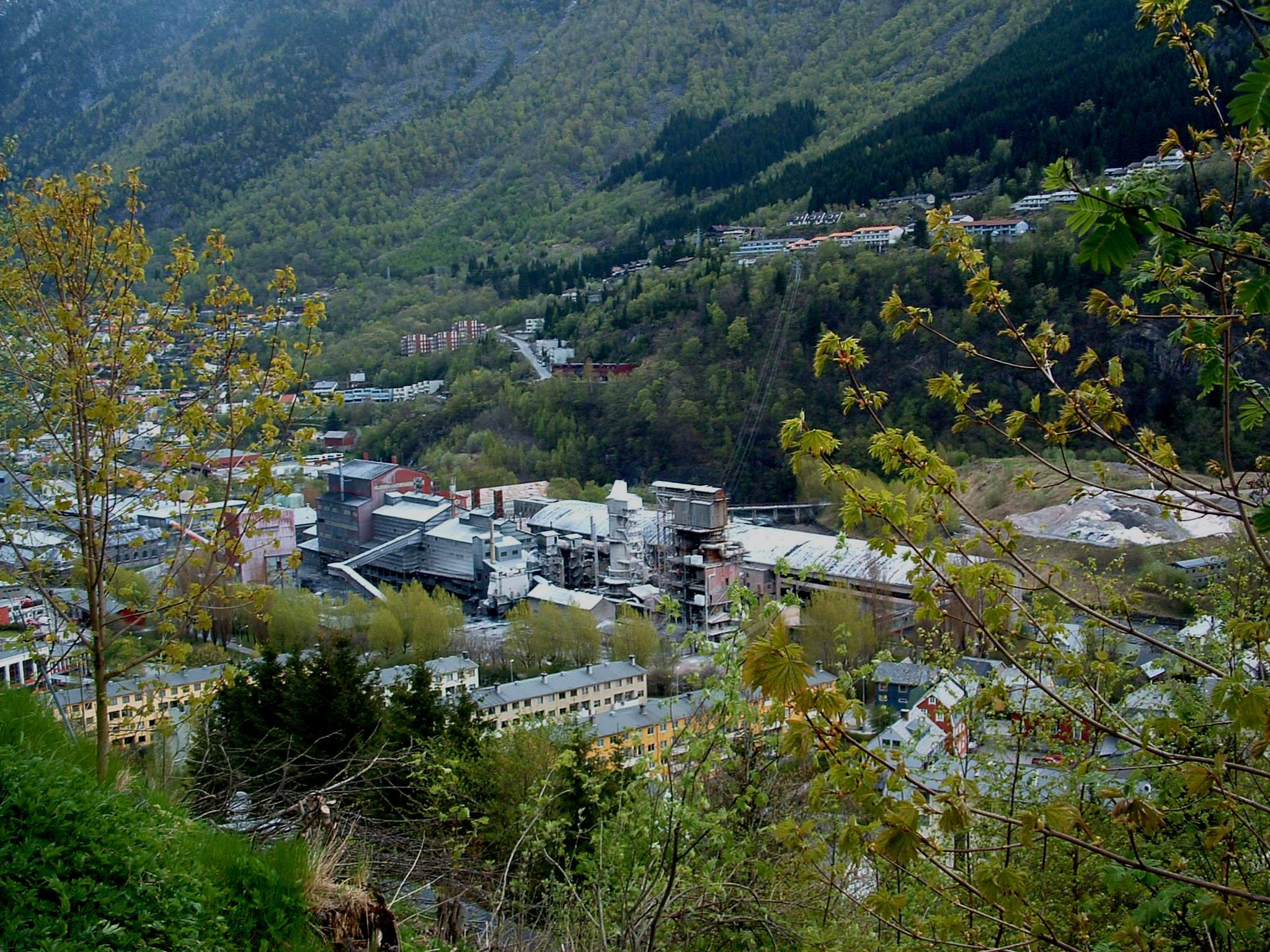 View of Odda and Odda Smelteverk.